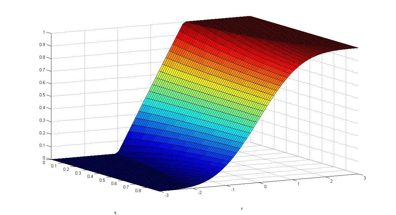 Cumulative Gaussian q-distribution with q varying from 0 to 0.9.